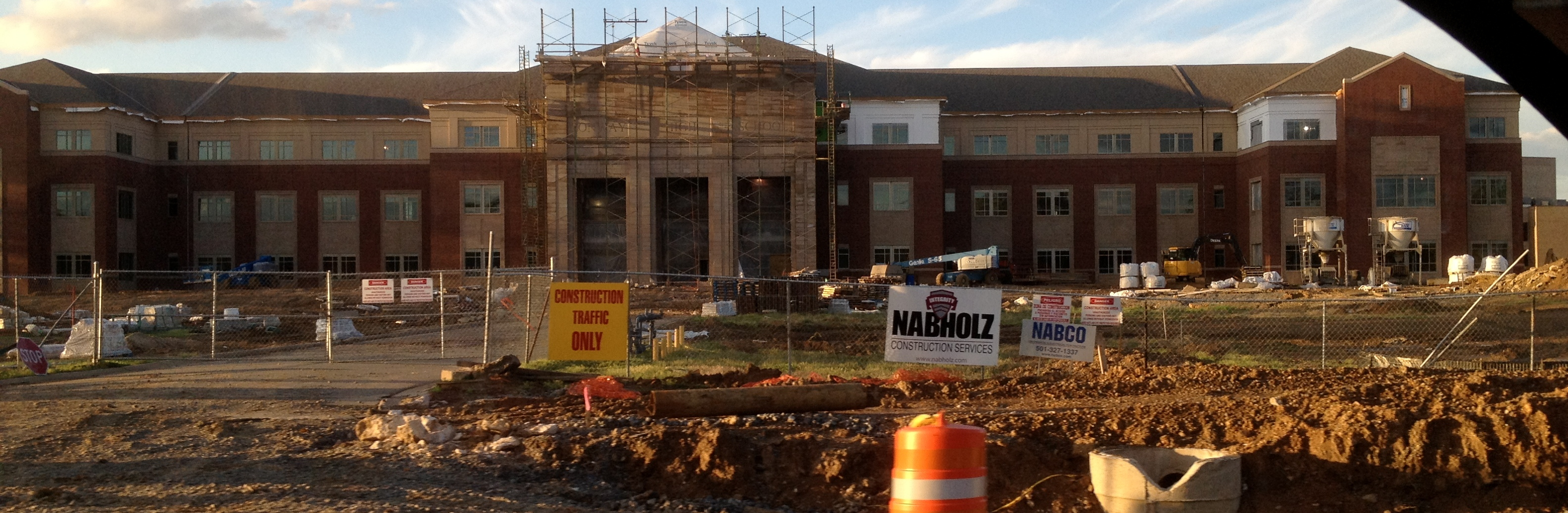 This photo was taken from the road as construction on Conway High was being conducted.